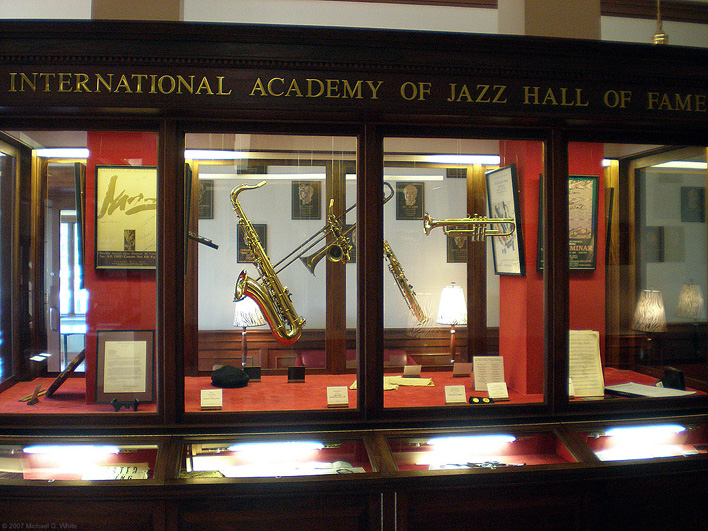 The International Academy of Jazz Hall of Fame in the William Pitt Union at the University of Pittsburgh. photo by Michael G White